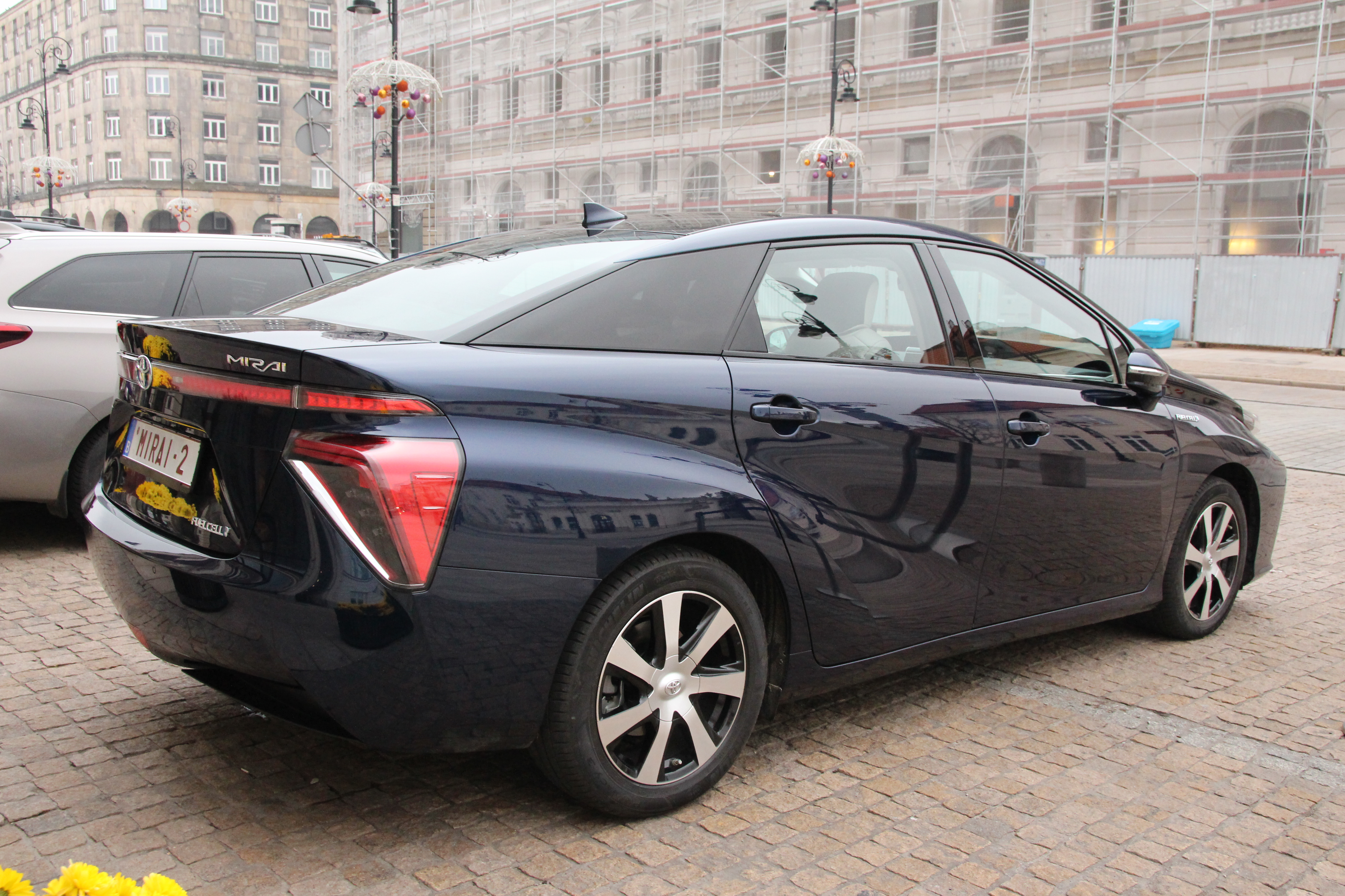 Toyota Mirai during demonstration in Warsaw, Poland, Nov 22 2015